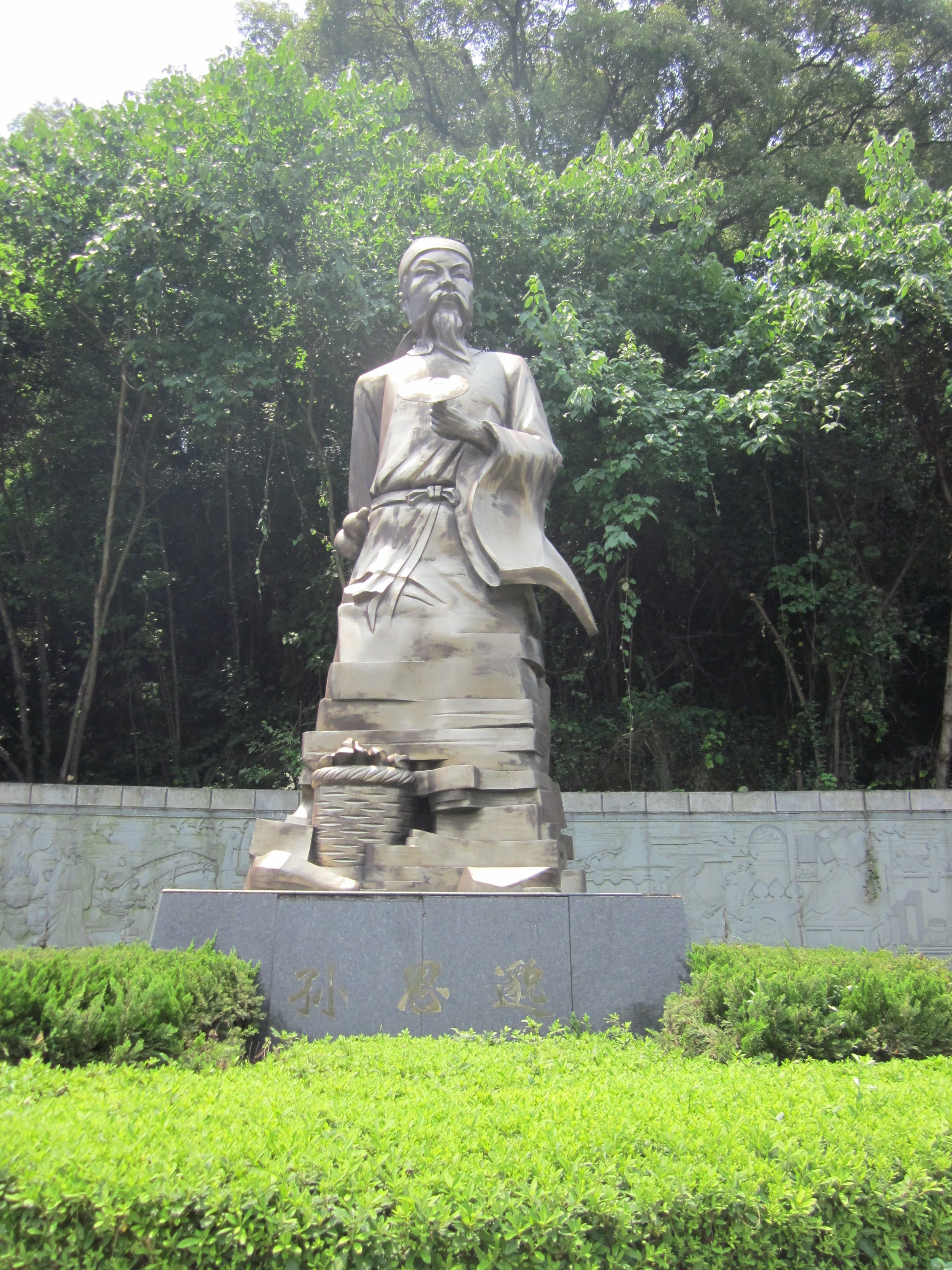 Simiao Park (Chinese: 思邈公园), located in Liuyang City, Hunan Province, is a famous natural areas and humanistic scenic spot.